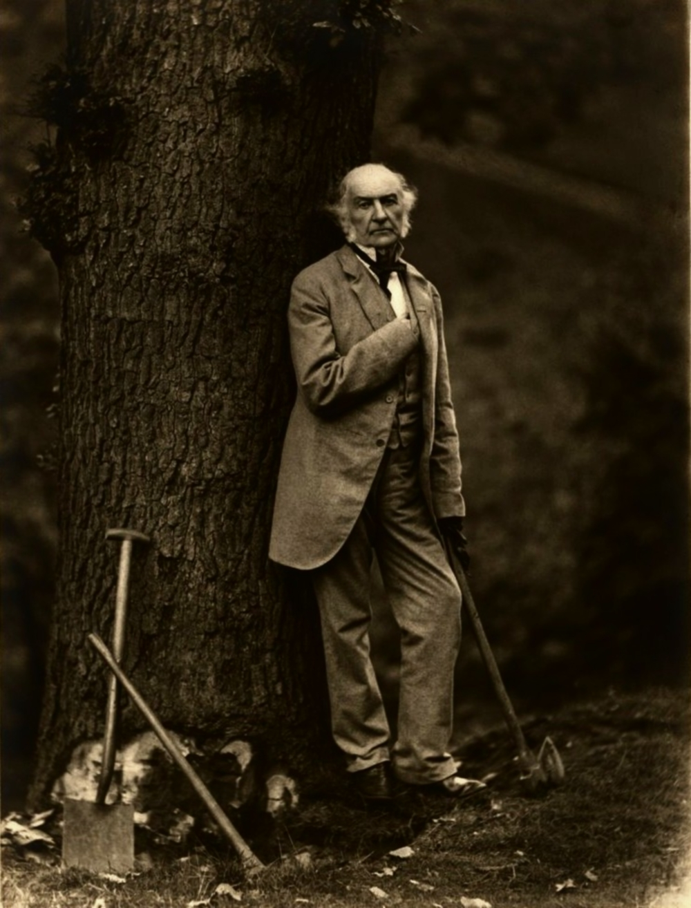 Informal portrait of William Ewart Gladstone (1809-1898)